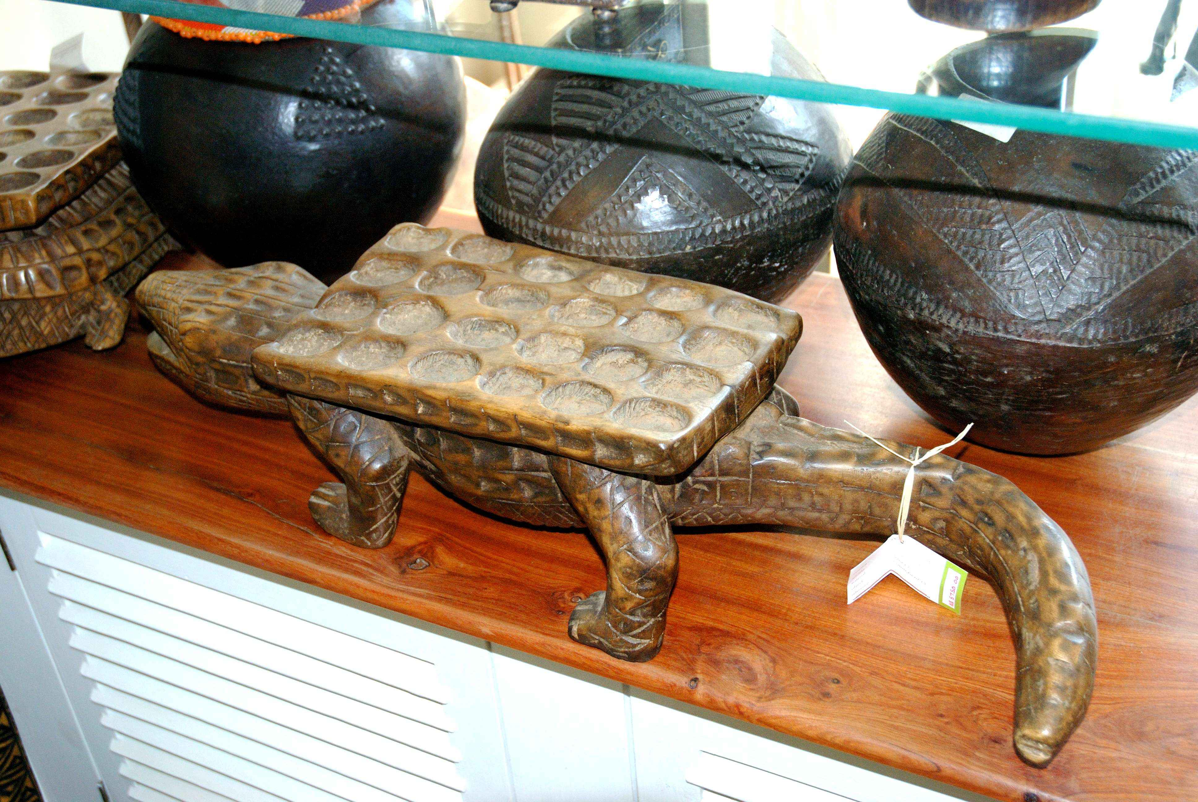 A traditional namibian boardgame of the mancala family, named Hus (Huis) or Omwela. Carved board for sale in a tourist shop in Swakopmund.